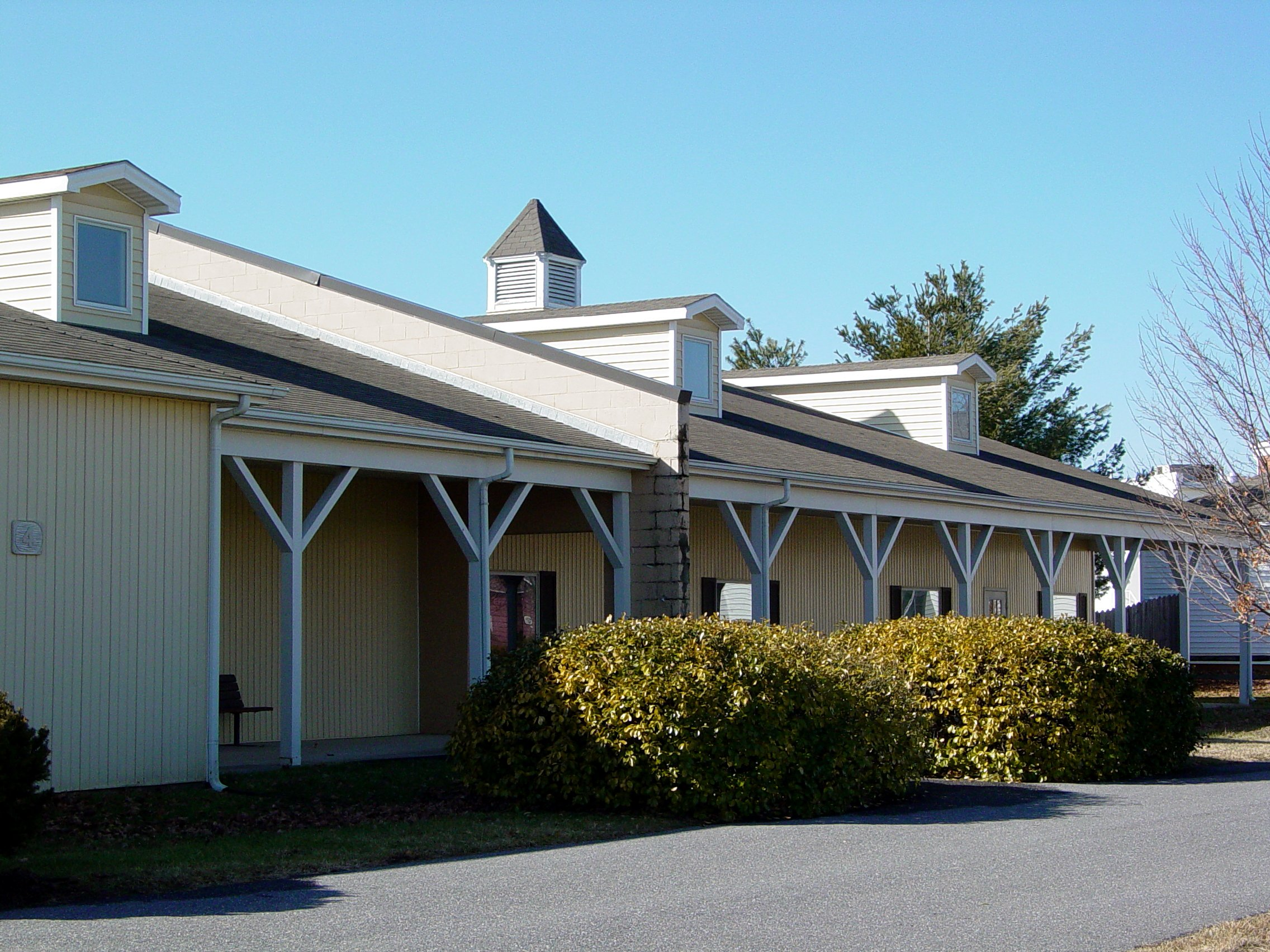 Building 4 of the Waynesboro Outlet Village approximately four months prior to the facility's closure.